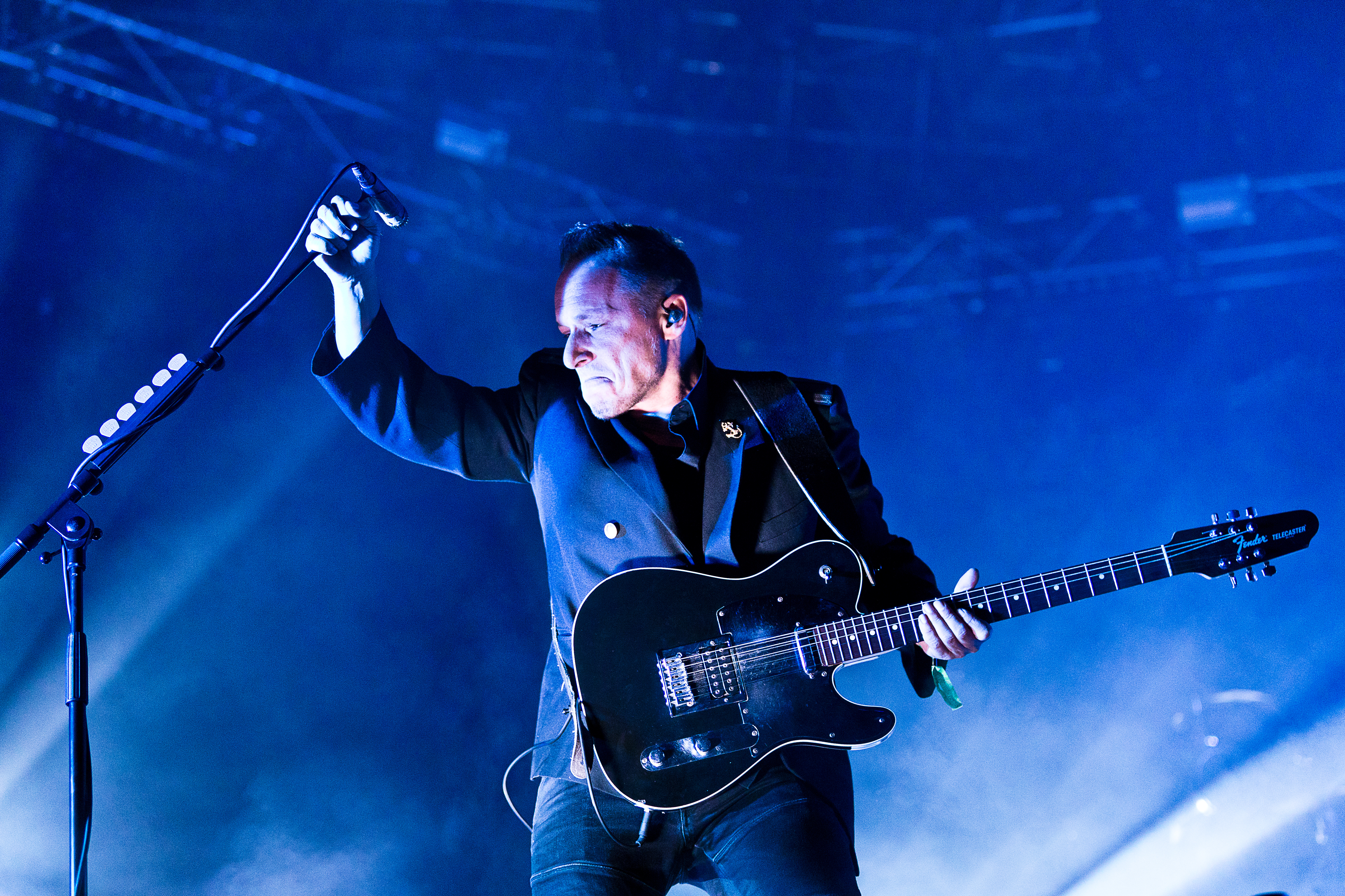 The German Neue Deutsche Härte band Eisbrecher at the Rockharz Open Air 2015 in Ballenstedt/Germany.